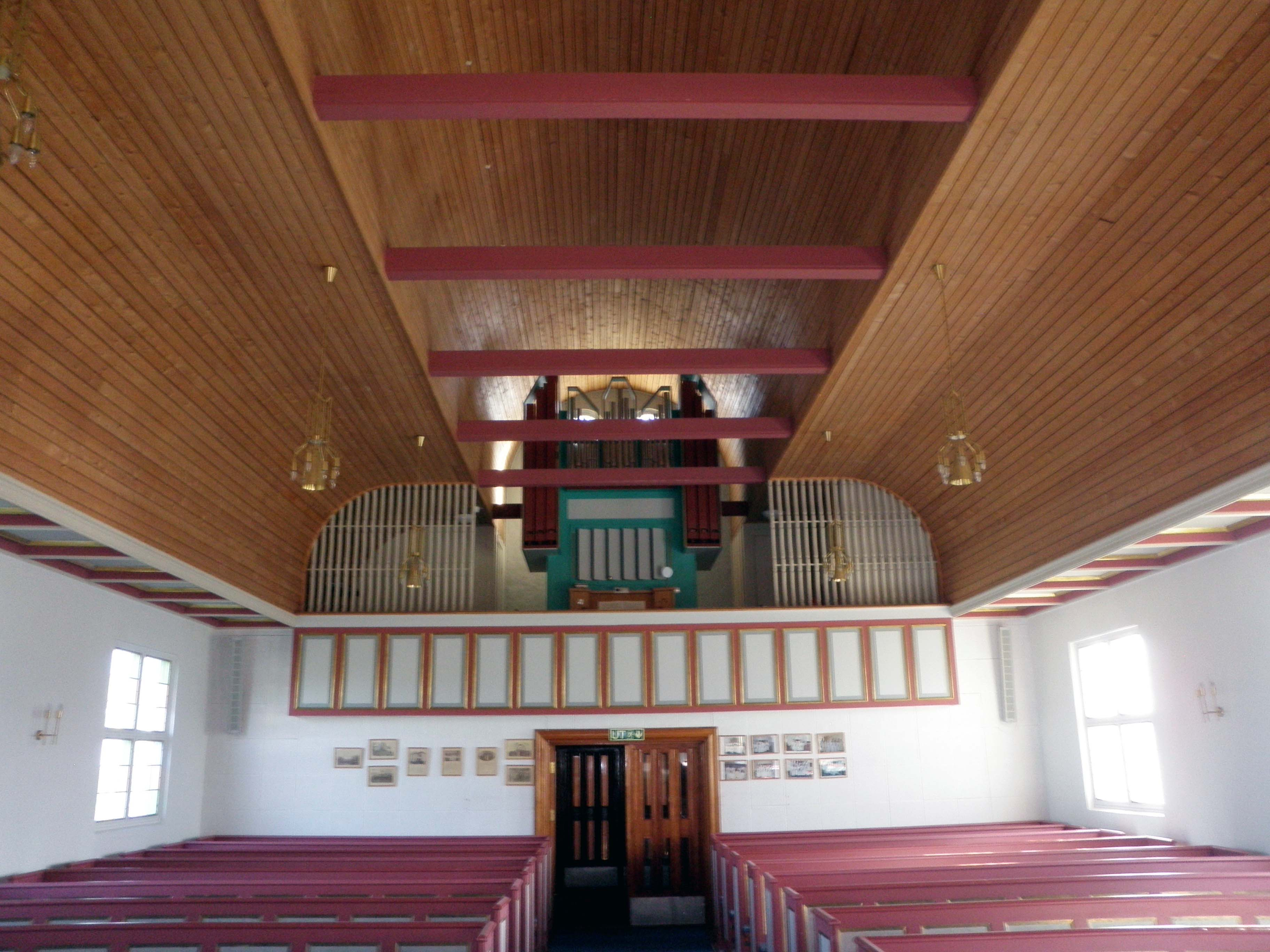 Interior view of Berlevåg Church in Berlevåg, Finnmark, Norway. Facing the main entrance and the church organ.